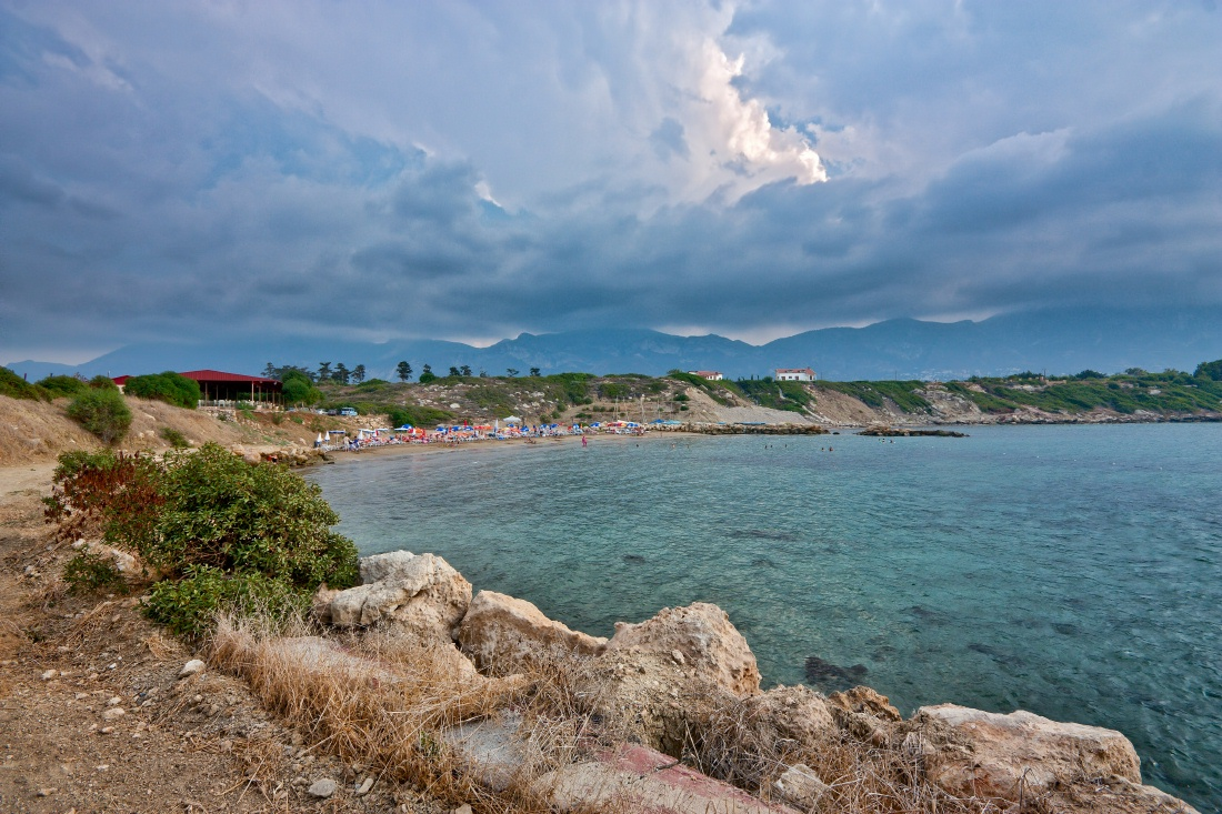 Diana Beach, Catalkoy, North Cyprus